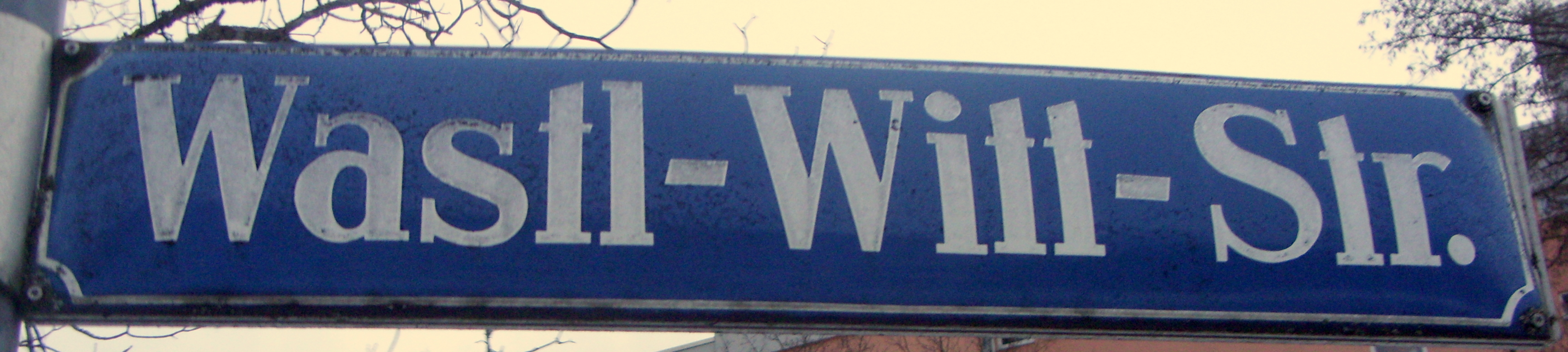 Street sign Wastl-Witt-Str. in Munich, Germany